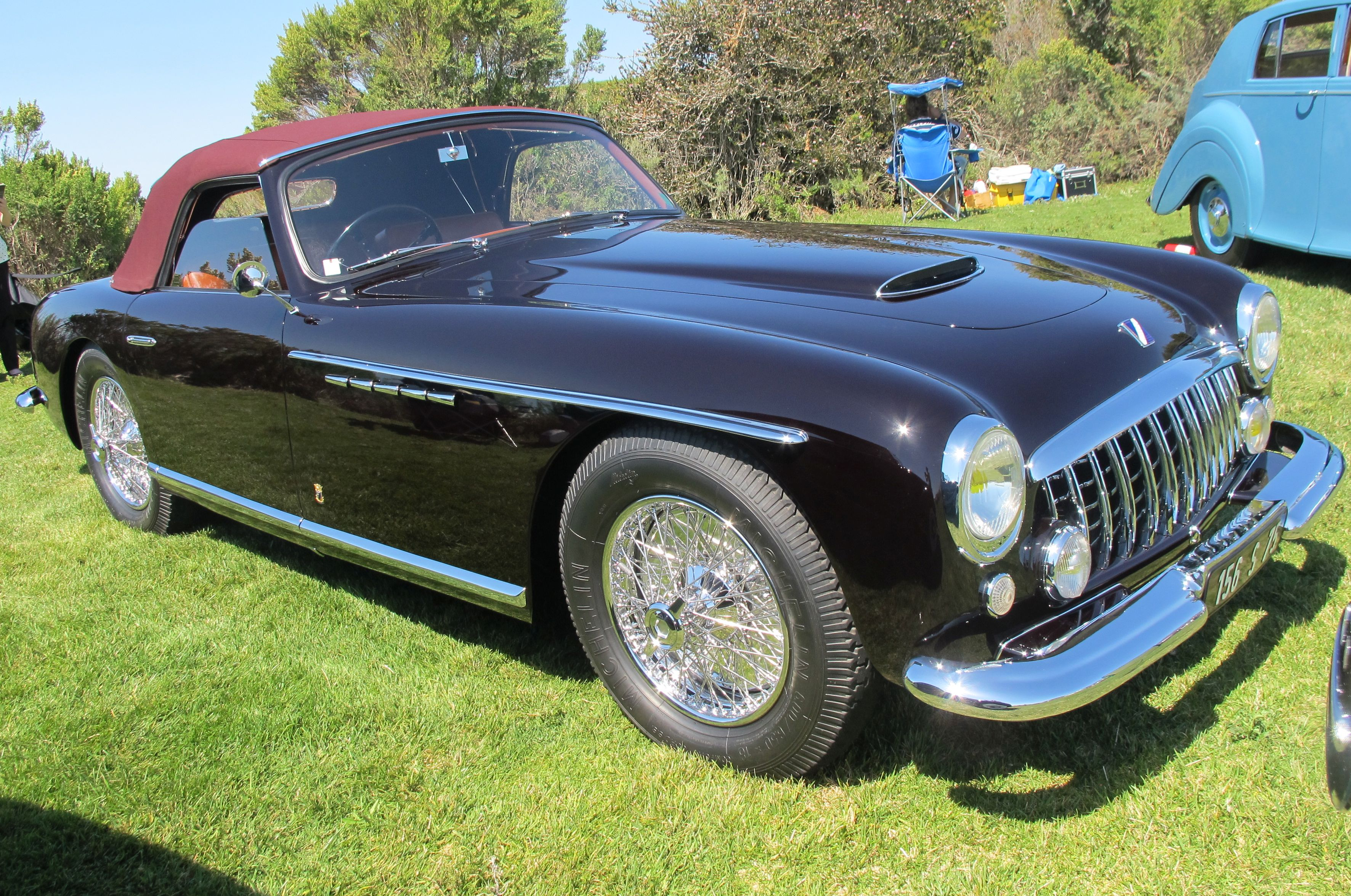 This 1951 Talbot Lago T26 Gran Sport Cabriolet by Stabilimenti Farina is an example of a later design by the old-time coachbuilder Farina. Later, the Farina family established Pinin Farina and continued their work. Stabilimenti Farina is separate from Pinin Farina established 1930